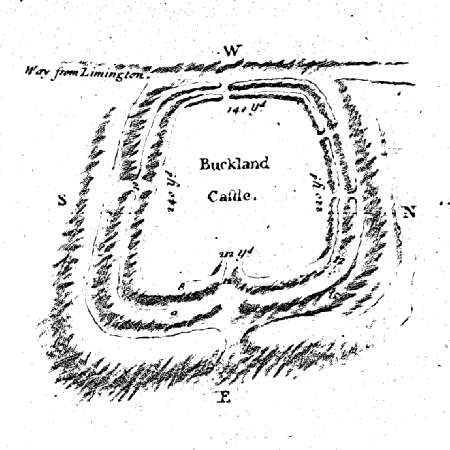 Depiction of the Iron Age fort Buckland Rings by Thomas Wright in a notice entitled A Letter from Mr. Tho. Wright to James Theobald, Esq; F. R. S. concerning Two ancient Camps in Hampshire. Philosophical Transactions of the Royal Society, Volume 43, 1744.